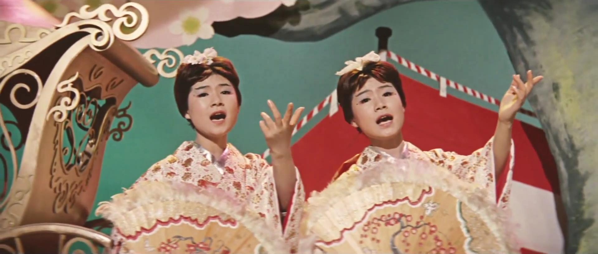 Scene from Mothra.